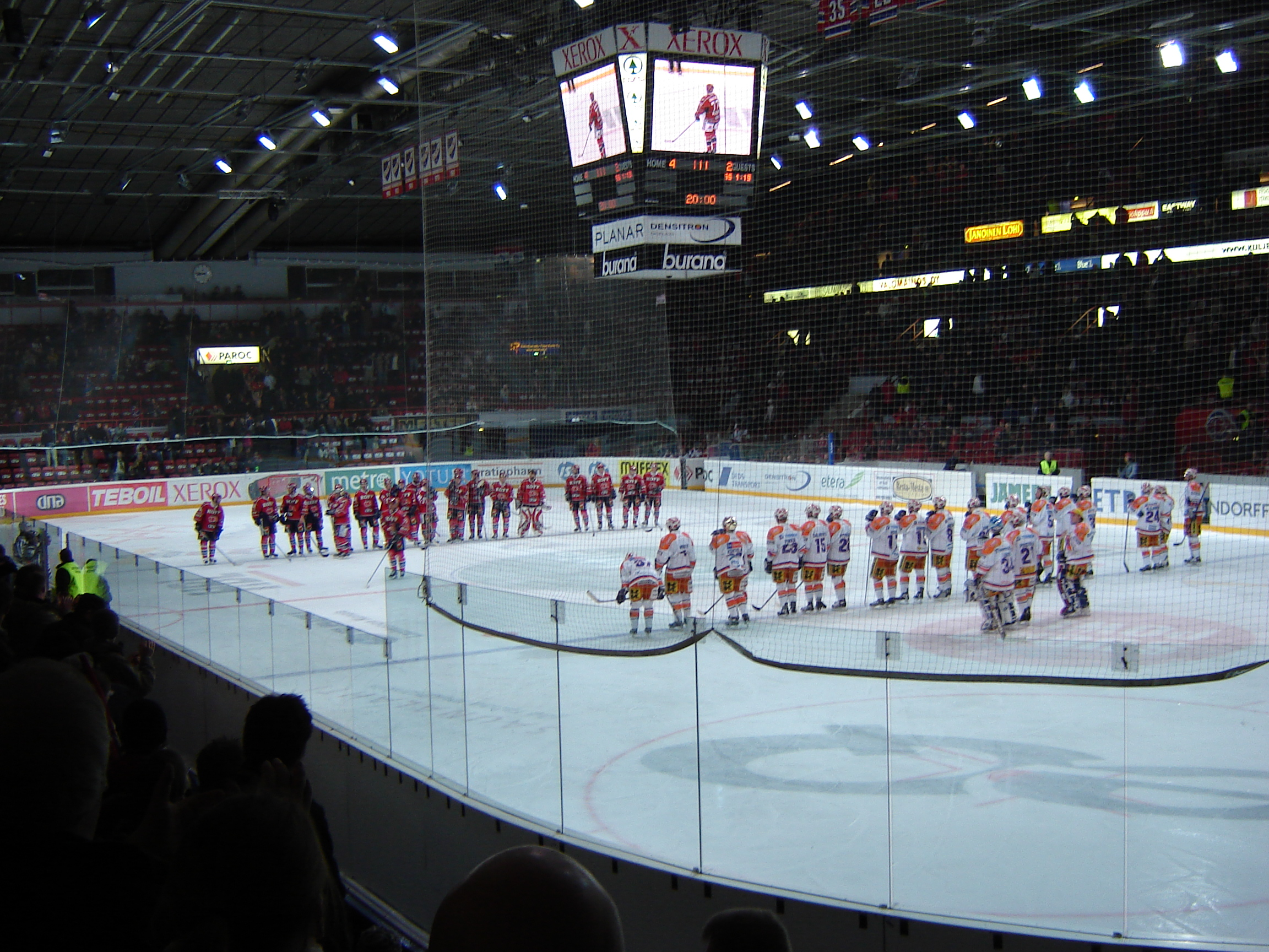 The match that has just ended was HIFK vs. Tappara on December 27th 2005.